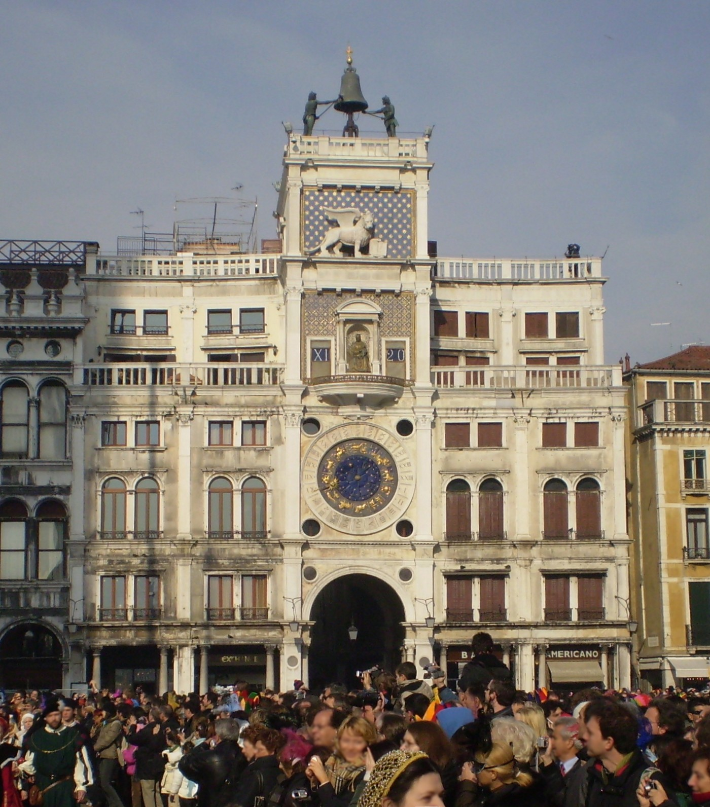 Torre dell'Orologio in Venice